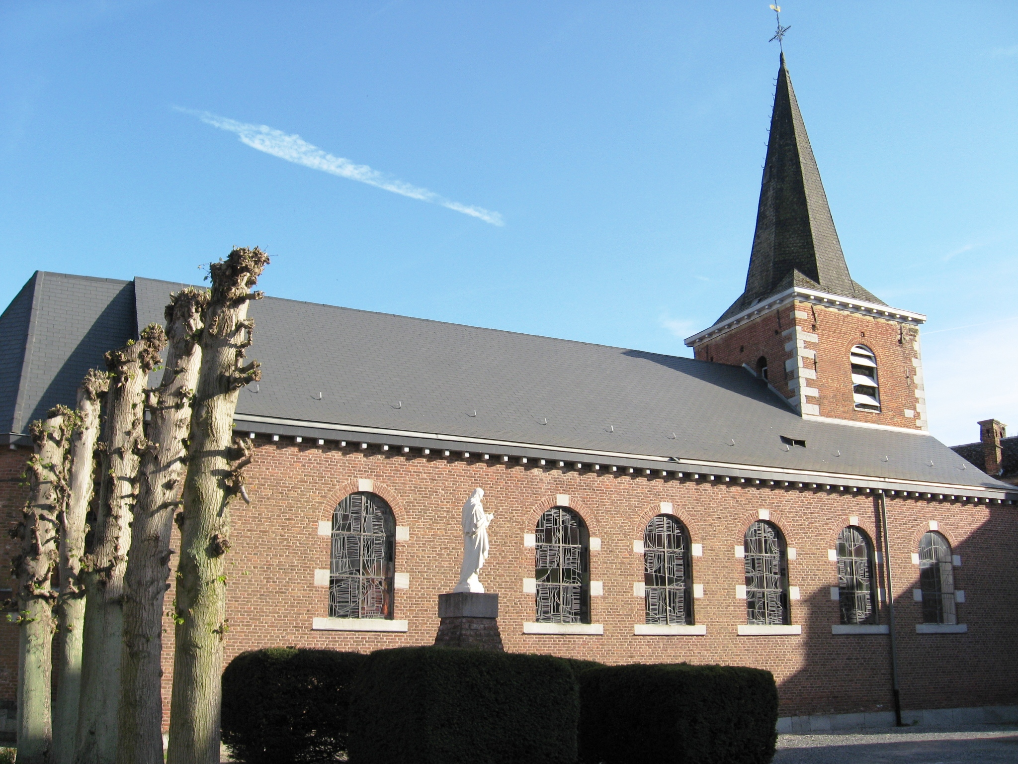 Church of Saint Lambert in Berloz, Liège, Belgium